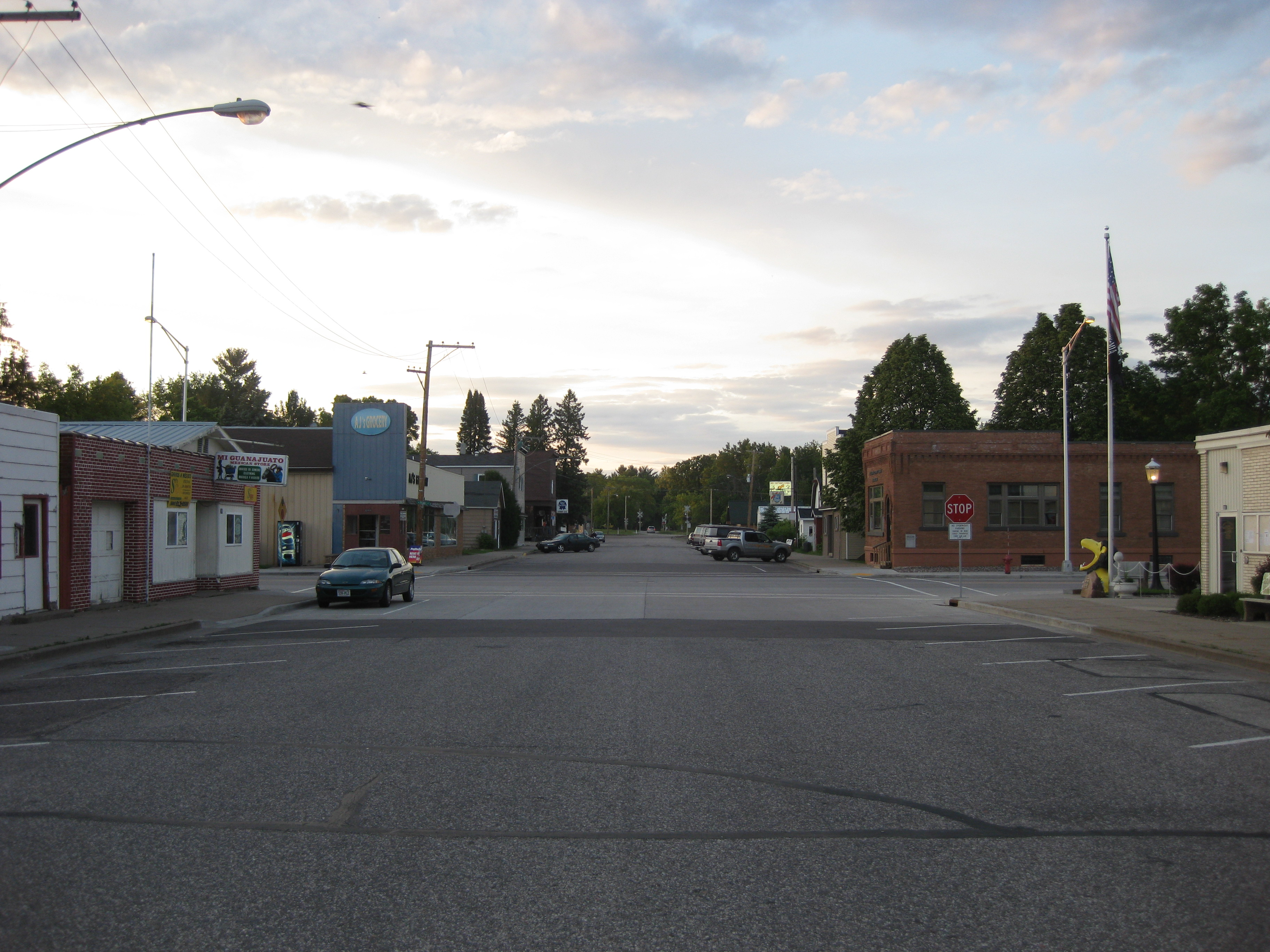 Picture taken by me.